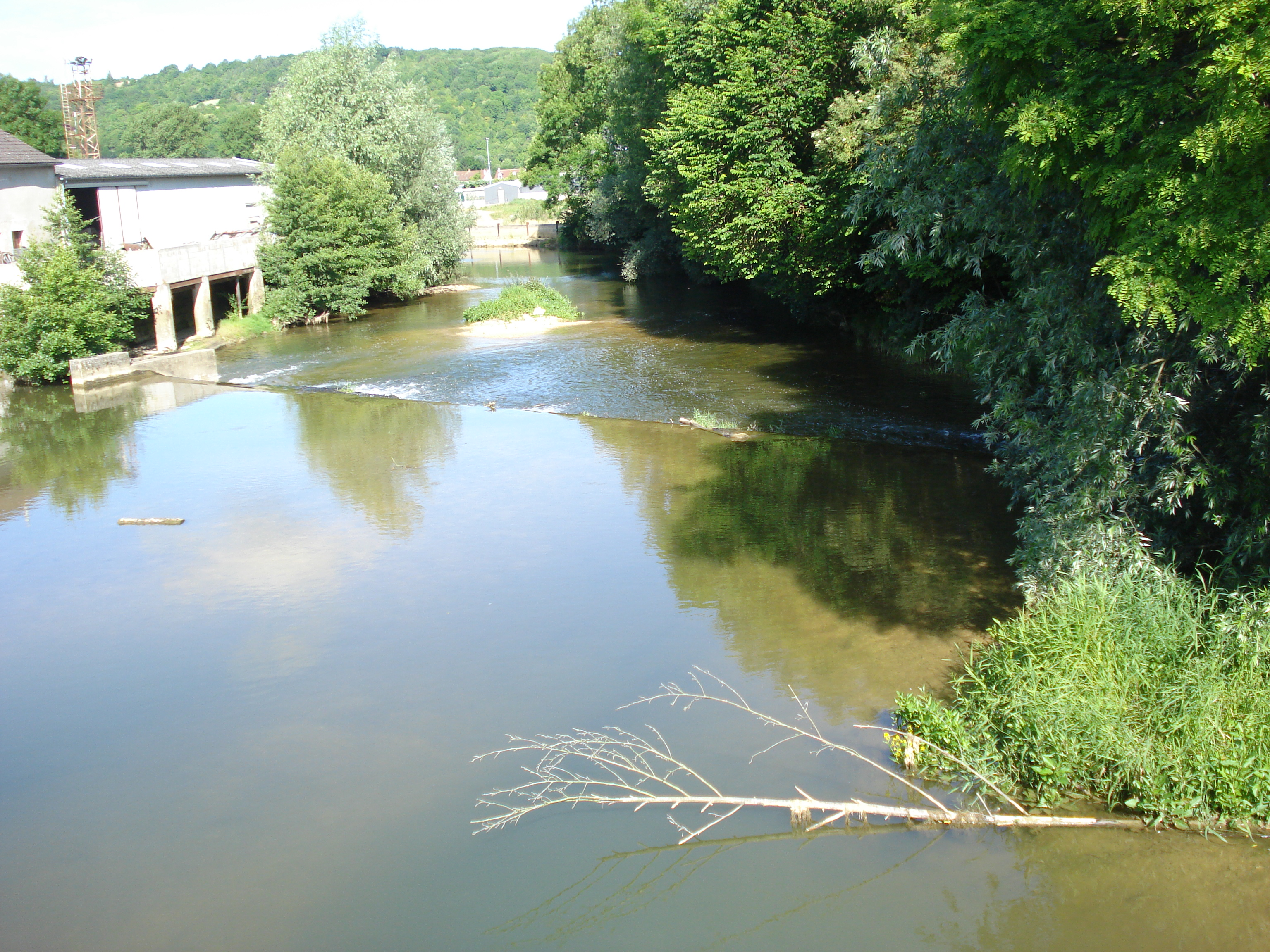 l'Armançon, Tonnerre (Yonne, Fr).